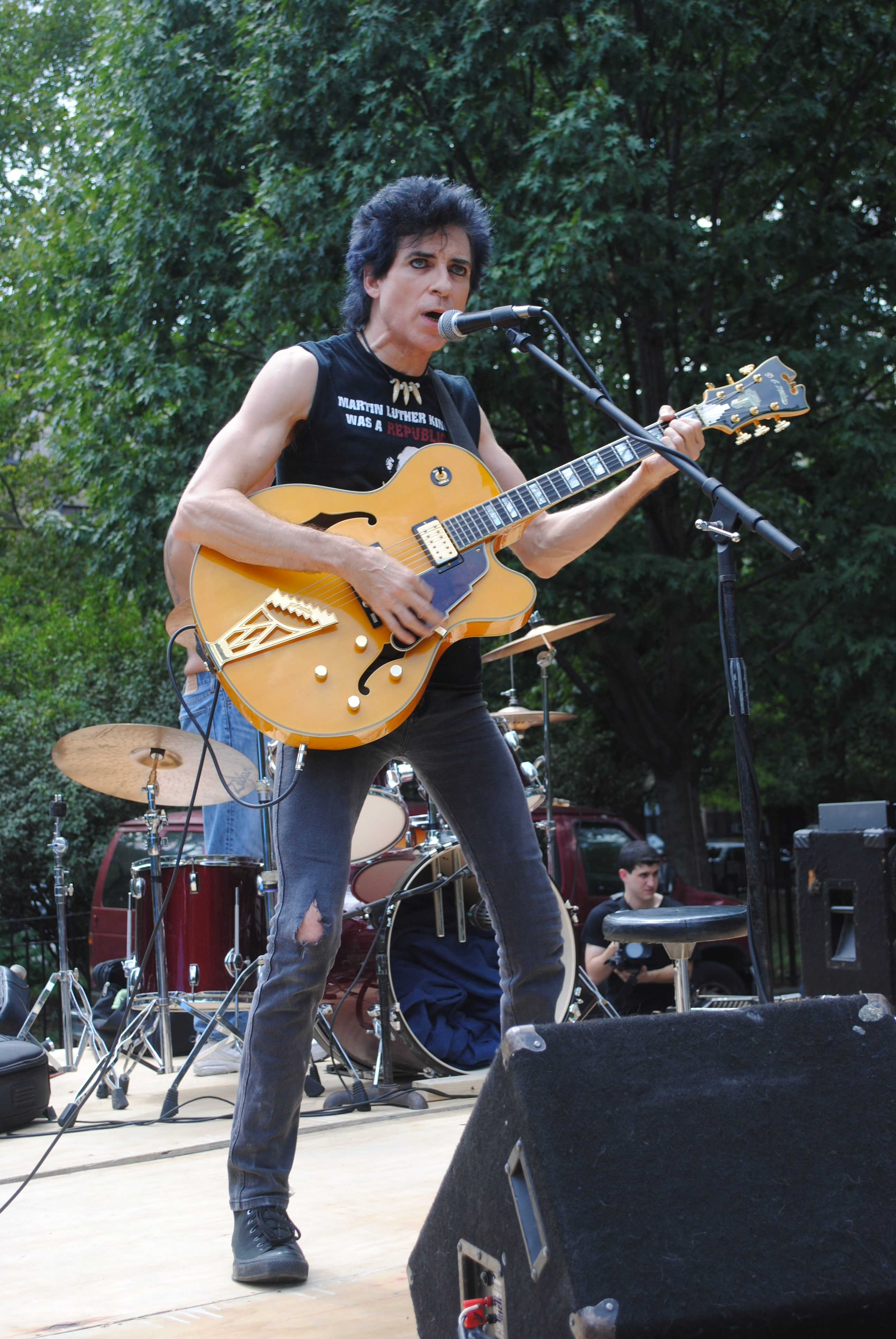 Bobby Steele from the Misfits playing solo acoustic guitar. He played and sang a damn fine version of 'Old Man River'. D'Angelico NYL-2DH